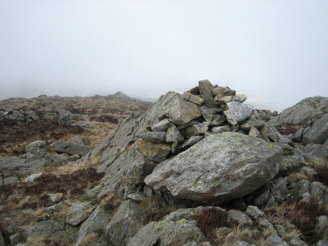 Yr Arddu